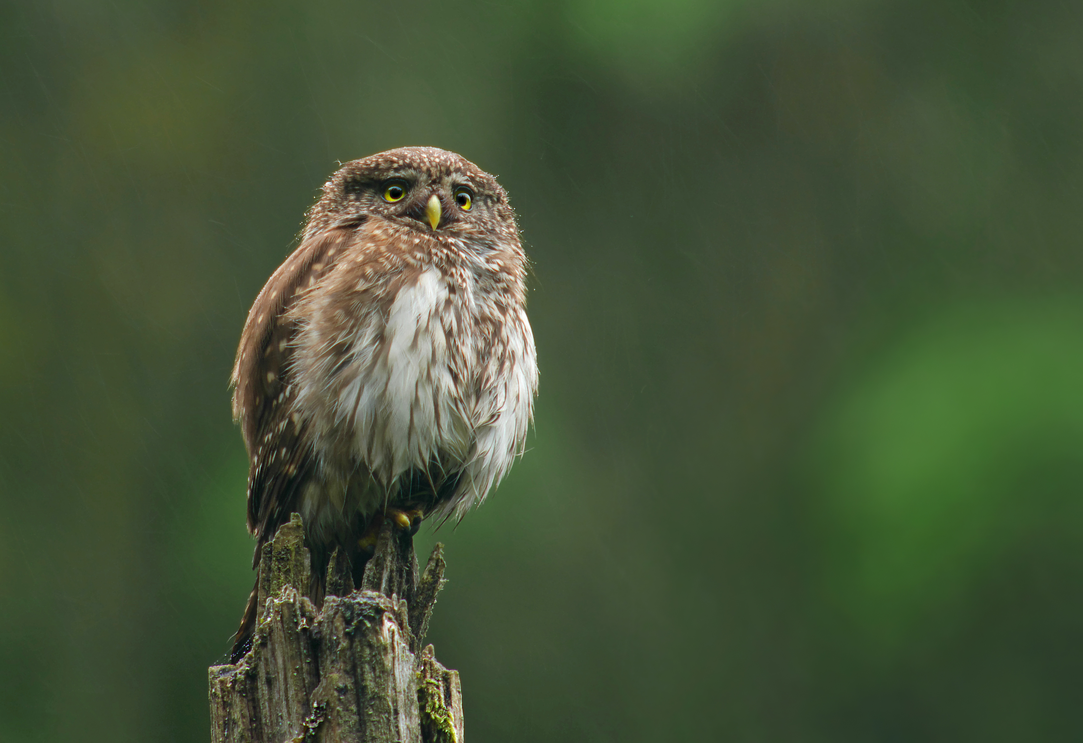 Digiscoping with Swarovski ATM 80 HD 30 X, Panasonic GX7 + Lumix G 20mm F1.7 ASPH lens (Adapter DCB) I am grateful to Simon Brumby ( for his precious advice on how to improve my digiscoping technique.